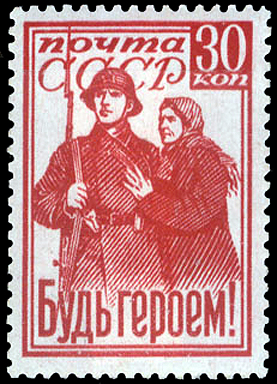 USSR stamp, Be a Hero!, 1941, 30 k.